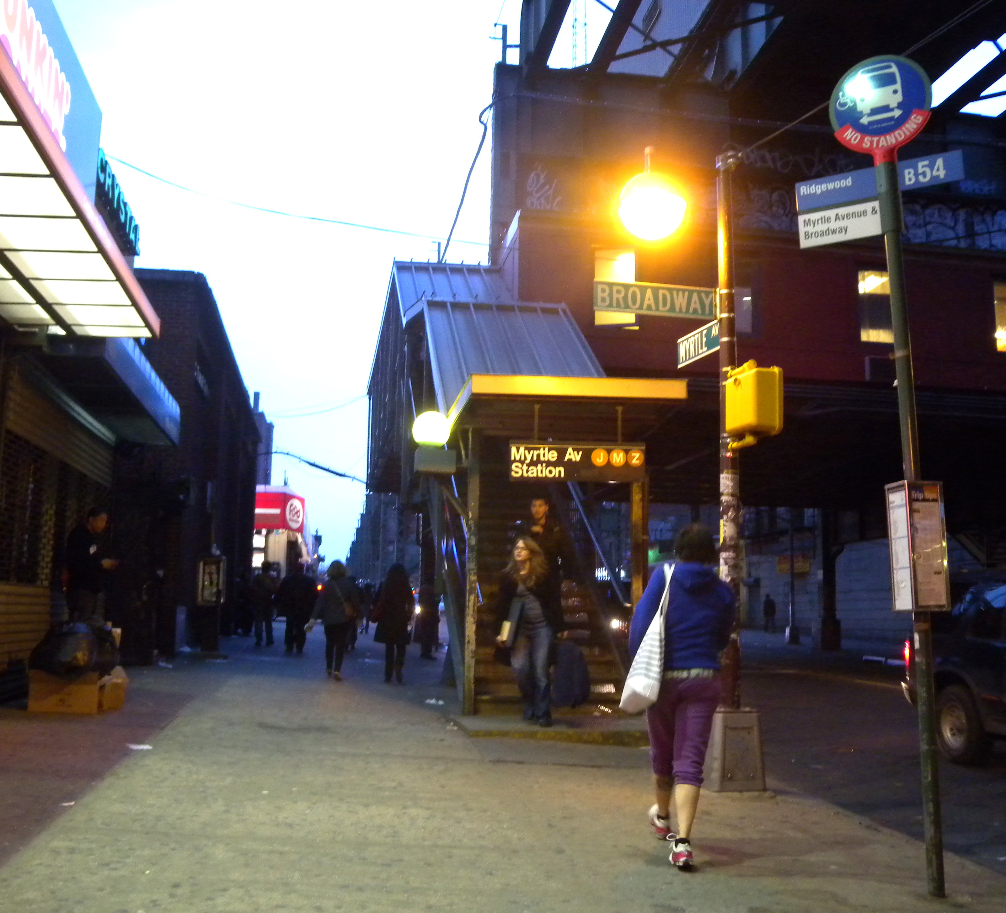 Lookng west along Broadway at Myrtle Avenue (BMT Jamaica Line) on a cloudy dusk.